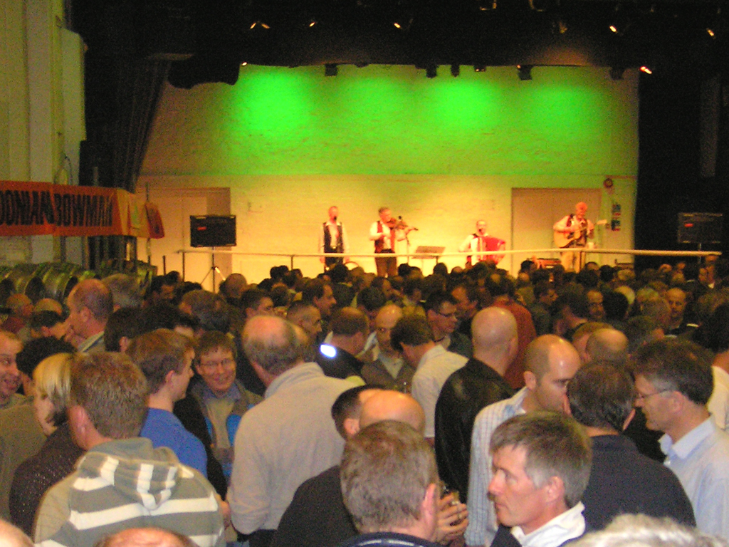 Farnham Beer Exhibition, Surrey UK